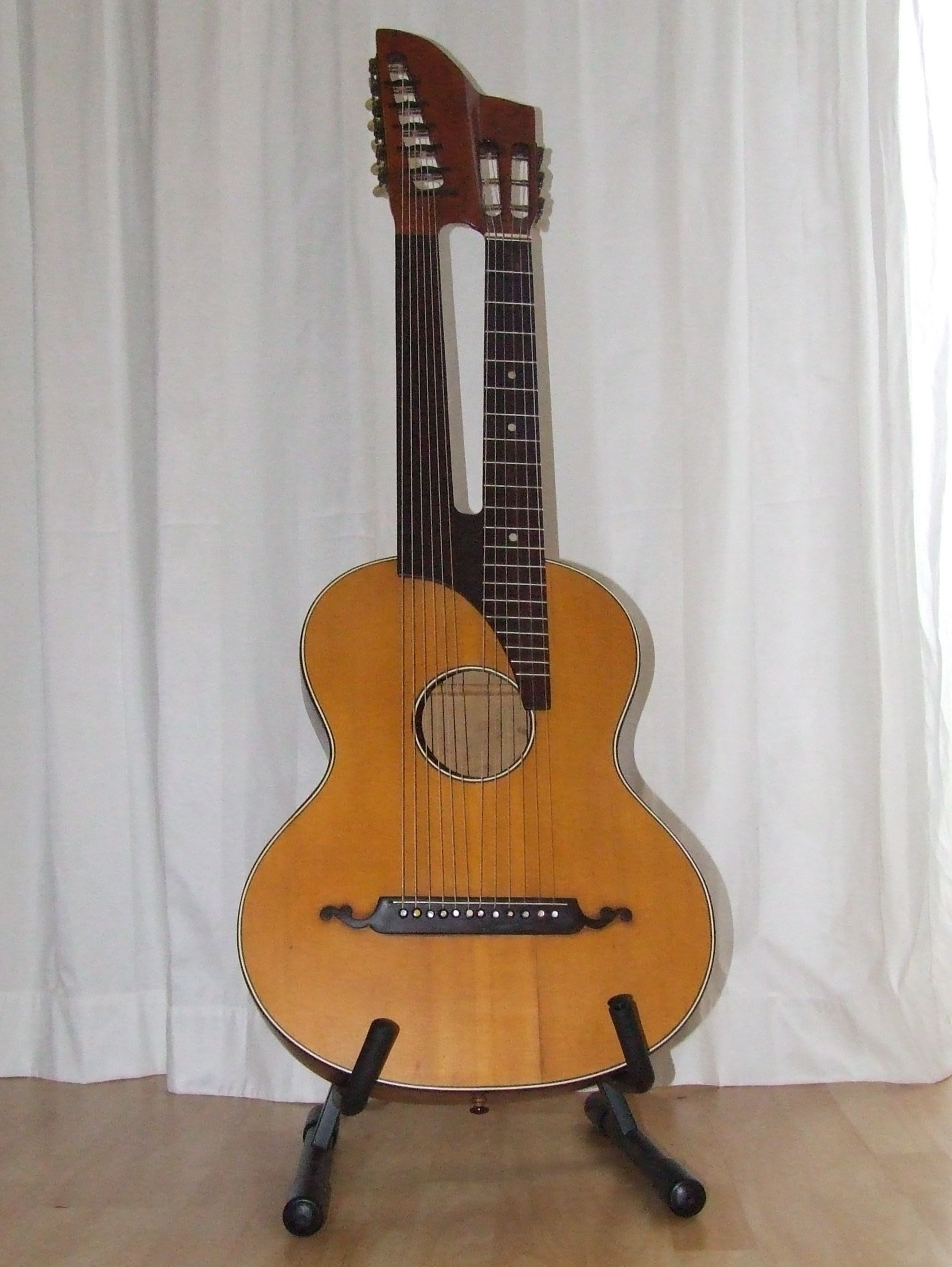 12-stringed contraguitar